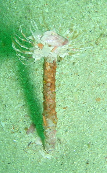 Sand mason worm at Caravan Reef near Millers Point on the Cape Peninsula